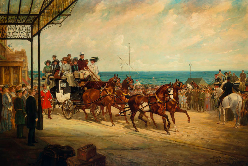 Alfred Gwynne Vanderbilt Arriving at Brighton, Driving his Coach "Venture" by James Lynwood Palmer, 1909